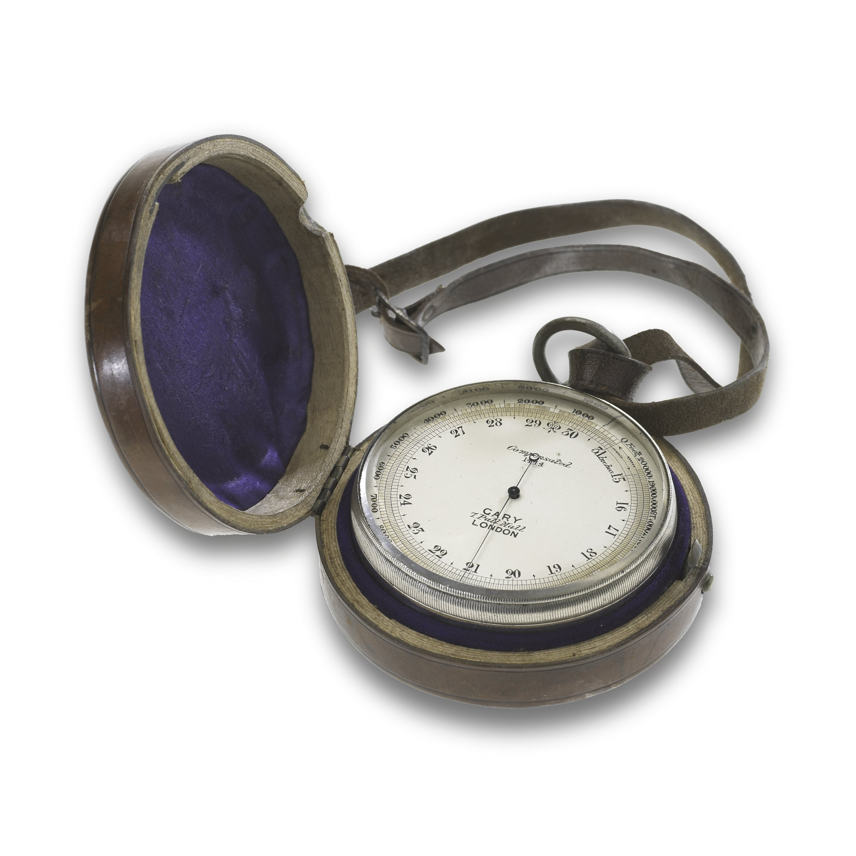 A pocked Aneroid Barometer used by Andrew Keith Jack in Ernest Shackleton's Trans-Antarctic Expedition (1914-1917).